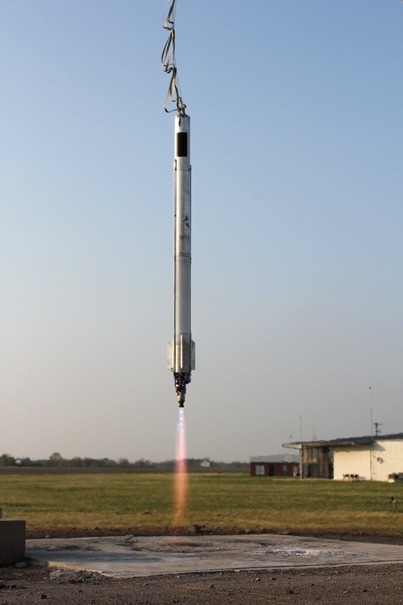 The Armadillo Aerospace "Stig" rocket vehicle hovering on a tether during testing, early 2011.